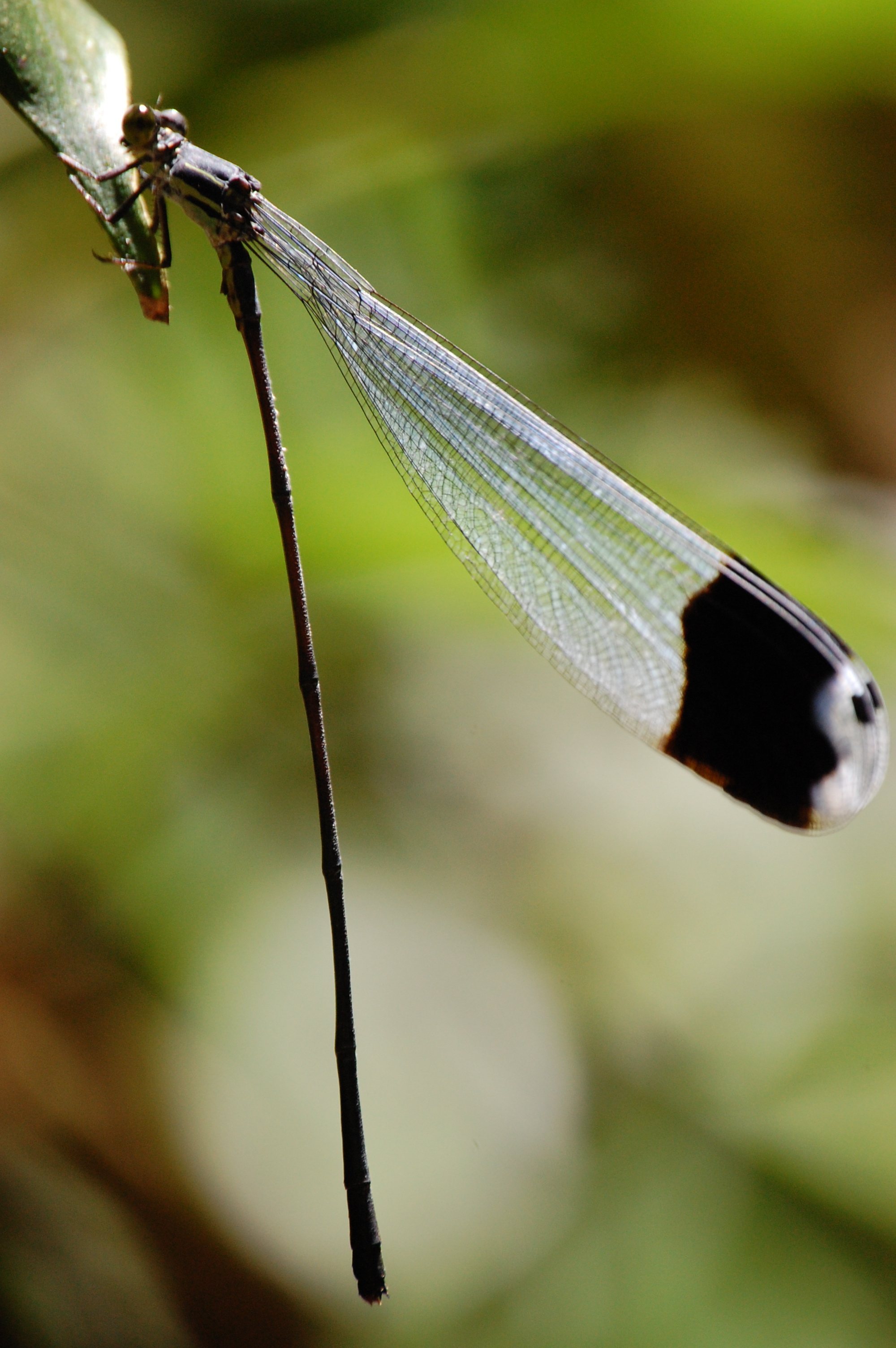 Female helicopter damselfly (Megaloprepus caerulatus) in the Osa Peninsula, Costa Rica. (Males have an additional white patch on the wings adjacent to the black stripe, on the side closer to the body